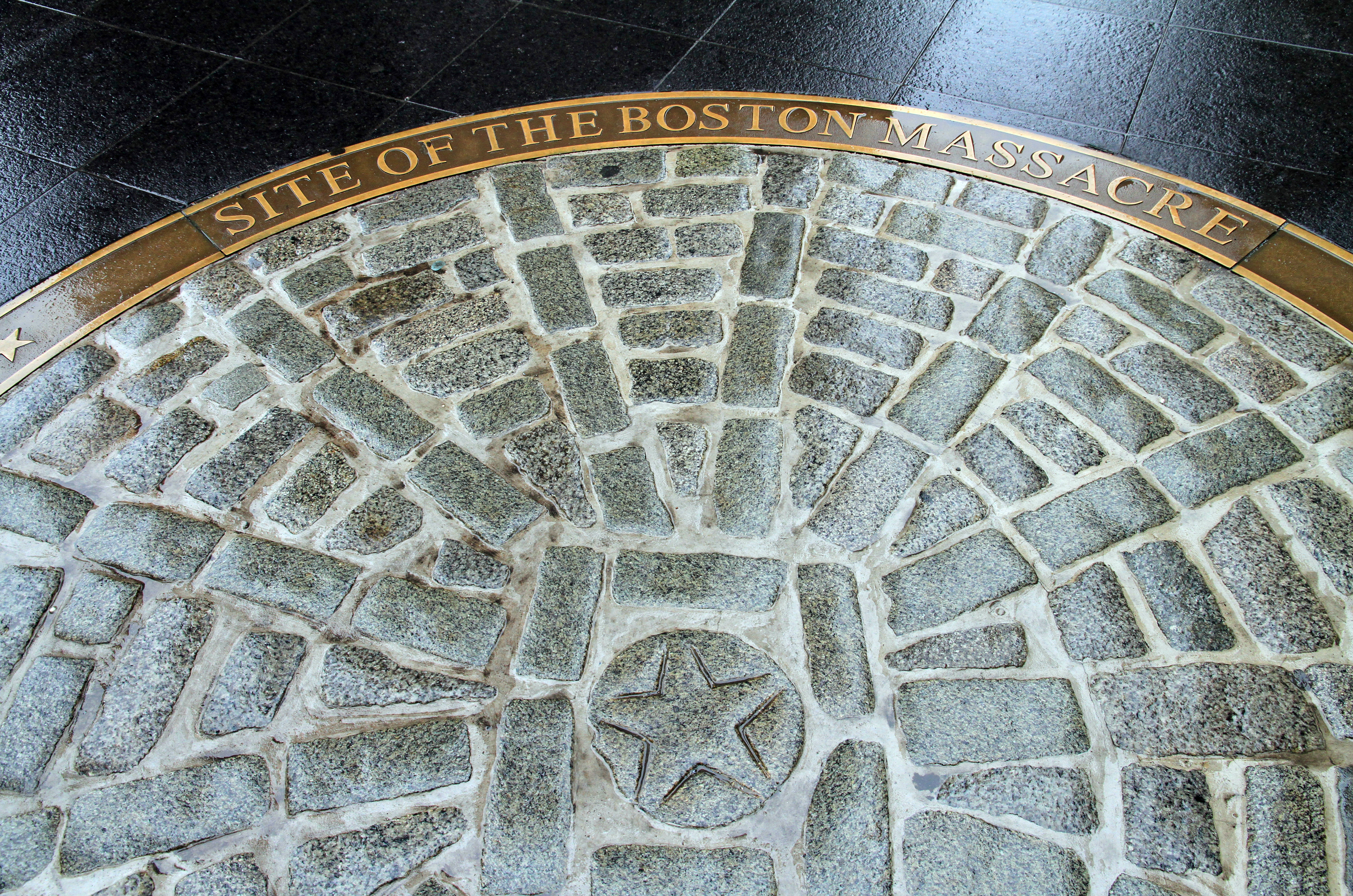 Massacre Site